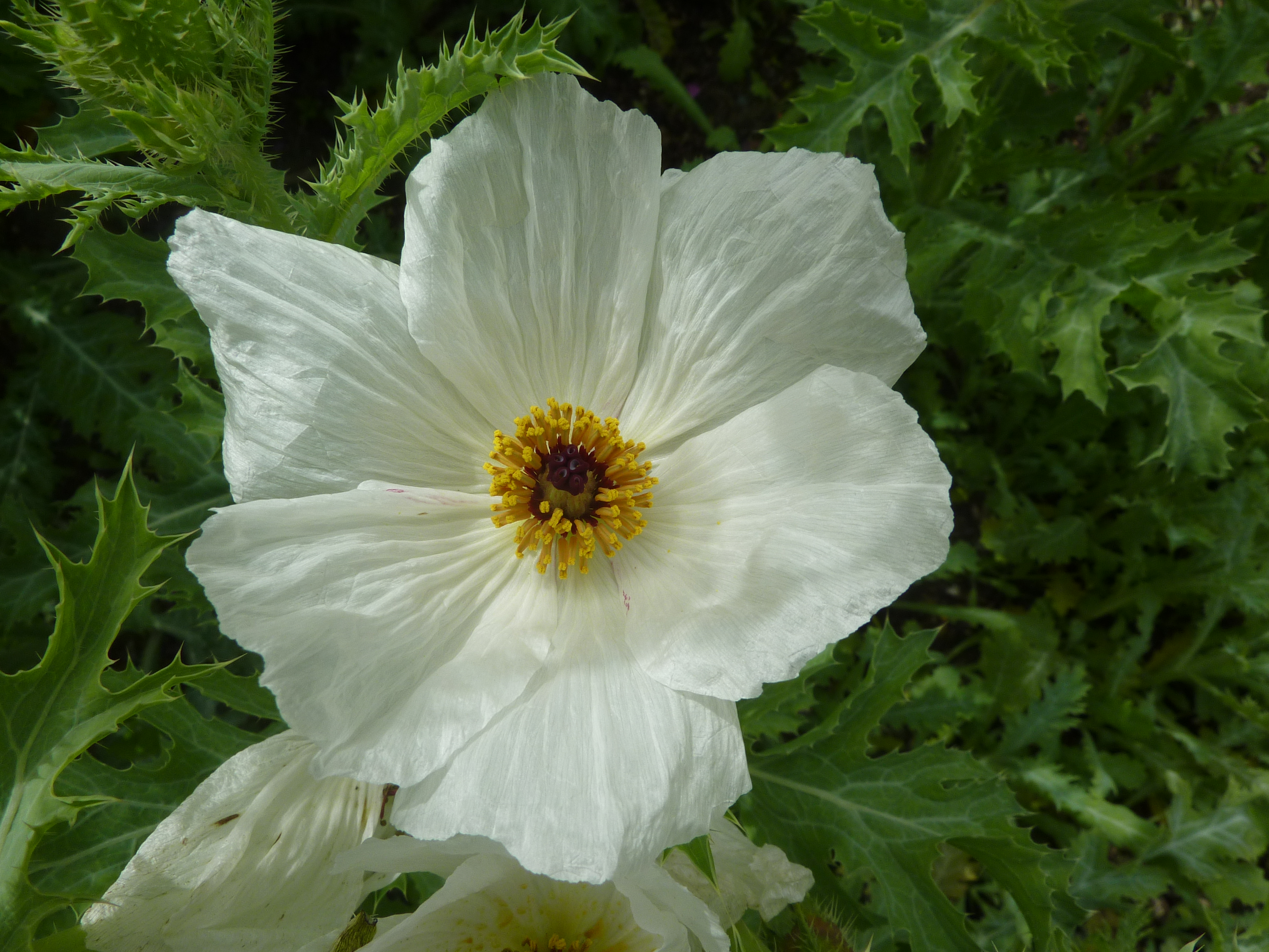 Taken in the Cambridge University Botanic Garden